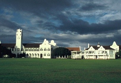 purely a photograph of the school